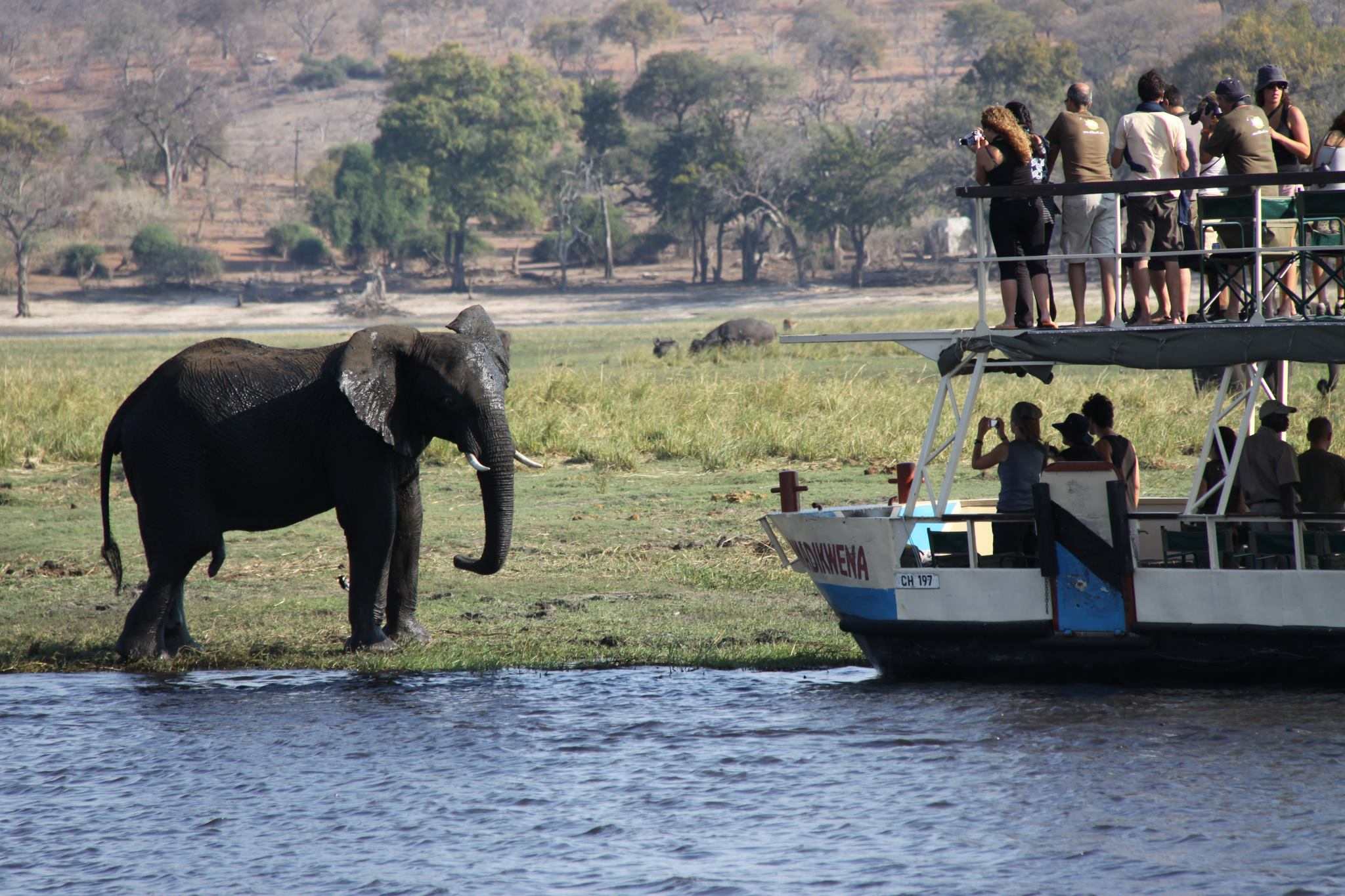 Botswana is known to have the largest population of elephants in the world. Sedudu Island loacted in the North West of Botswana has a considerable number of these elephants due to its fertile grazing. Tourists on cruises often interact with these elephants and take stunning photographs from close up. This is an image with the theme "Africa on the Move or Transport" from: Botswana